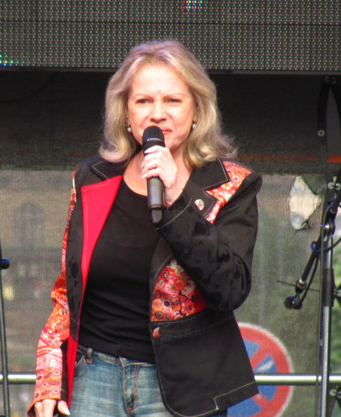 Eva Pilarová, Czech vocalist